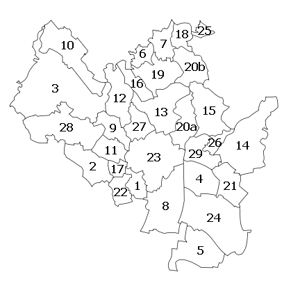 Map of city quarters of Brno